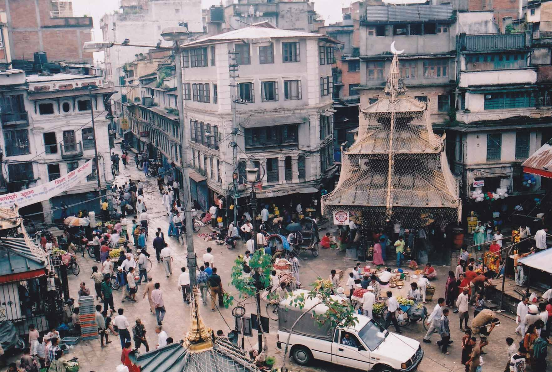 Asan chowk and Annapurna Ajima Temple